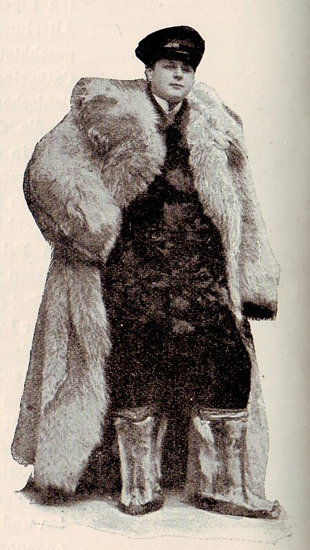 Wolf fur coat (Russian wolf skins)